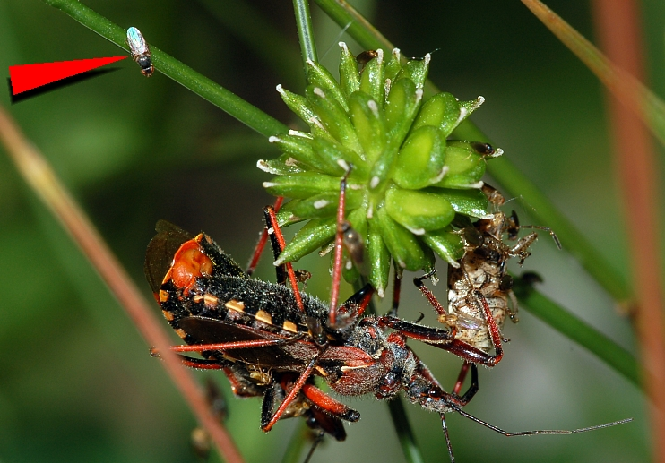 Desmometopa spec. det. Irina Brake (2007), Milichiidae, in front of Rhinocoris erythropus, Kaub, Germany